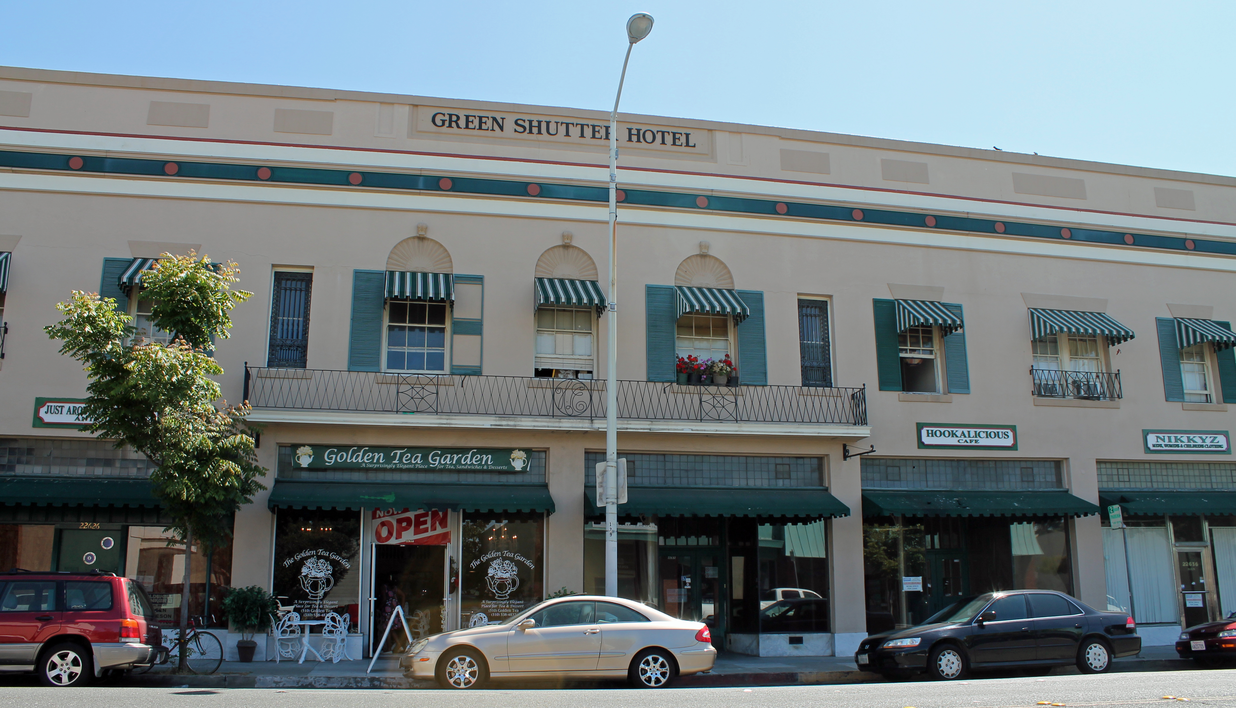 Green Shutter Hotel